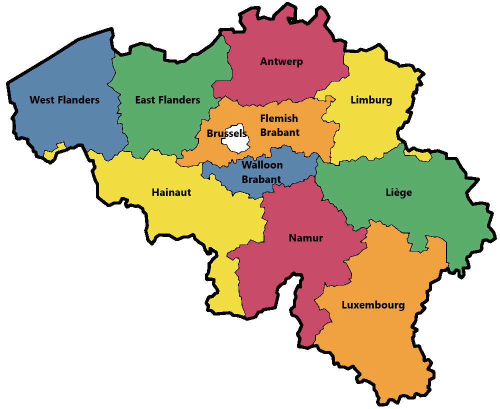 Map of the provinces of Belgium with English names